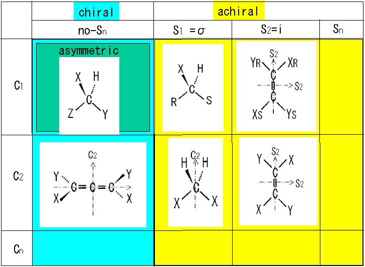 chirality and symmetry